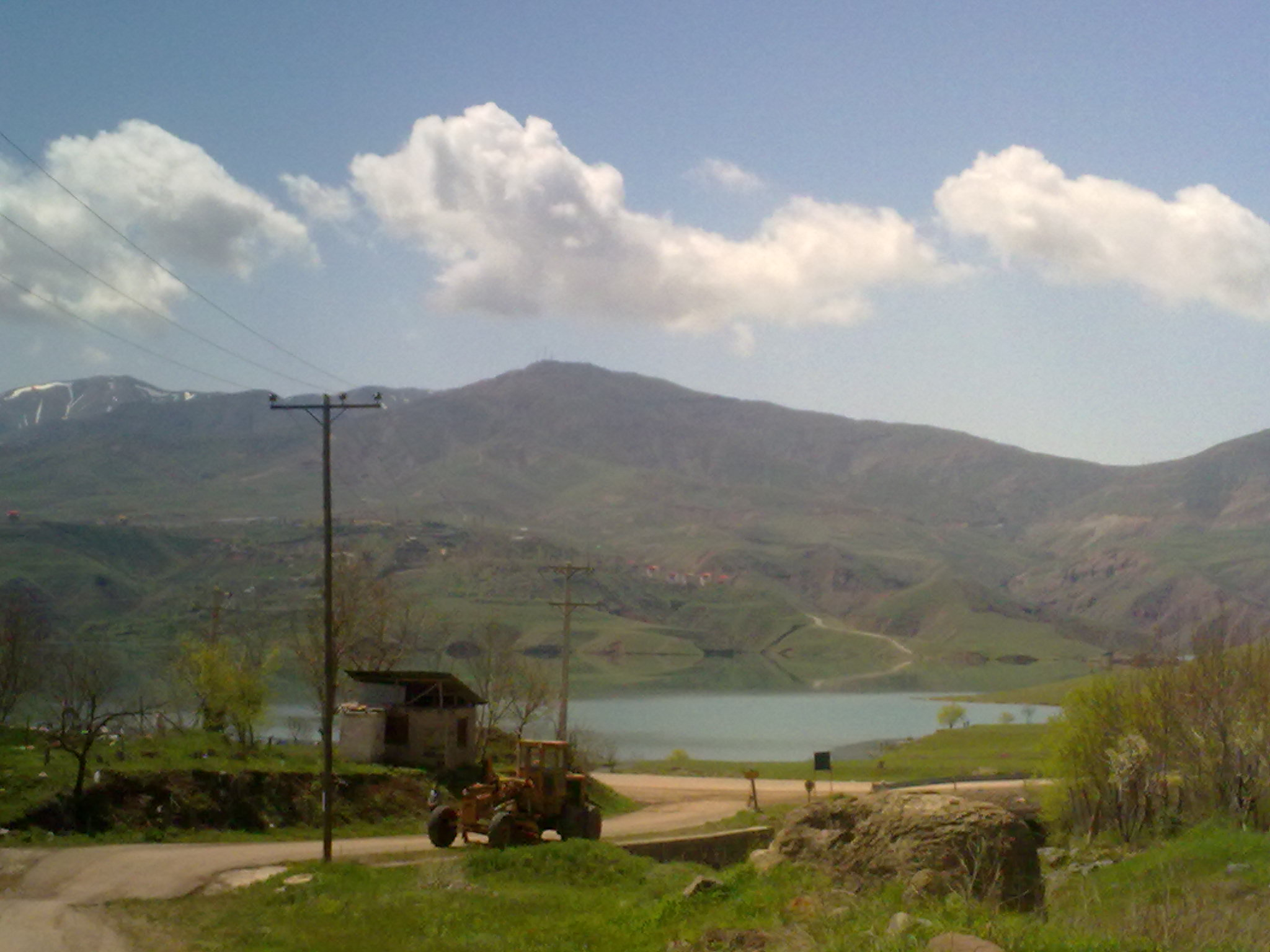 آرموت طالقان